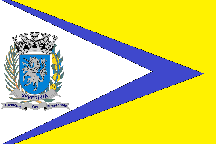 Flag of Severínia, state of São Paulo, Brazil. This work is in the public domain in Brazil for one of the following reasons: It is a work published or commissioned by a Brazilian government (federal, state, or municipal) prior to 1983.(Law 3071/1916, art. 662; Law 5988/1973, art. 46; Law 9610/1998, art. 115) It is the text of a treaty, convention, law, decree, regulation, judicial decision, or other official enactment.(Law 9610/1998, art. 8) This image shows a flag, a coat of arms, a seal or some other official insignia. The use of such symbols is restricted in many countries. These restrictions are independent of the copyright status.